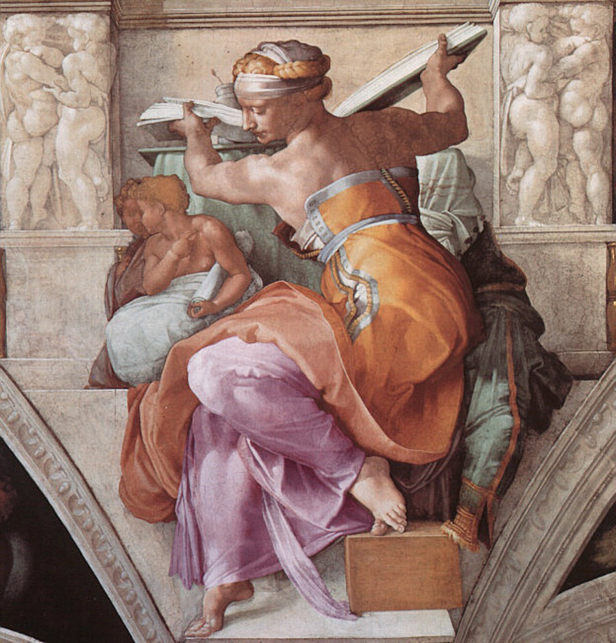 Sistine Chapel ceiling, Michelangelo, The Libyan Sibyl, post restoration.